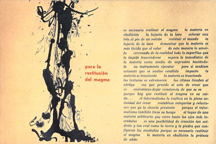 manifiesto